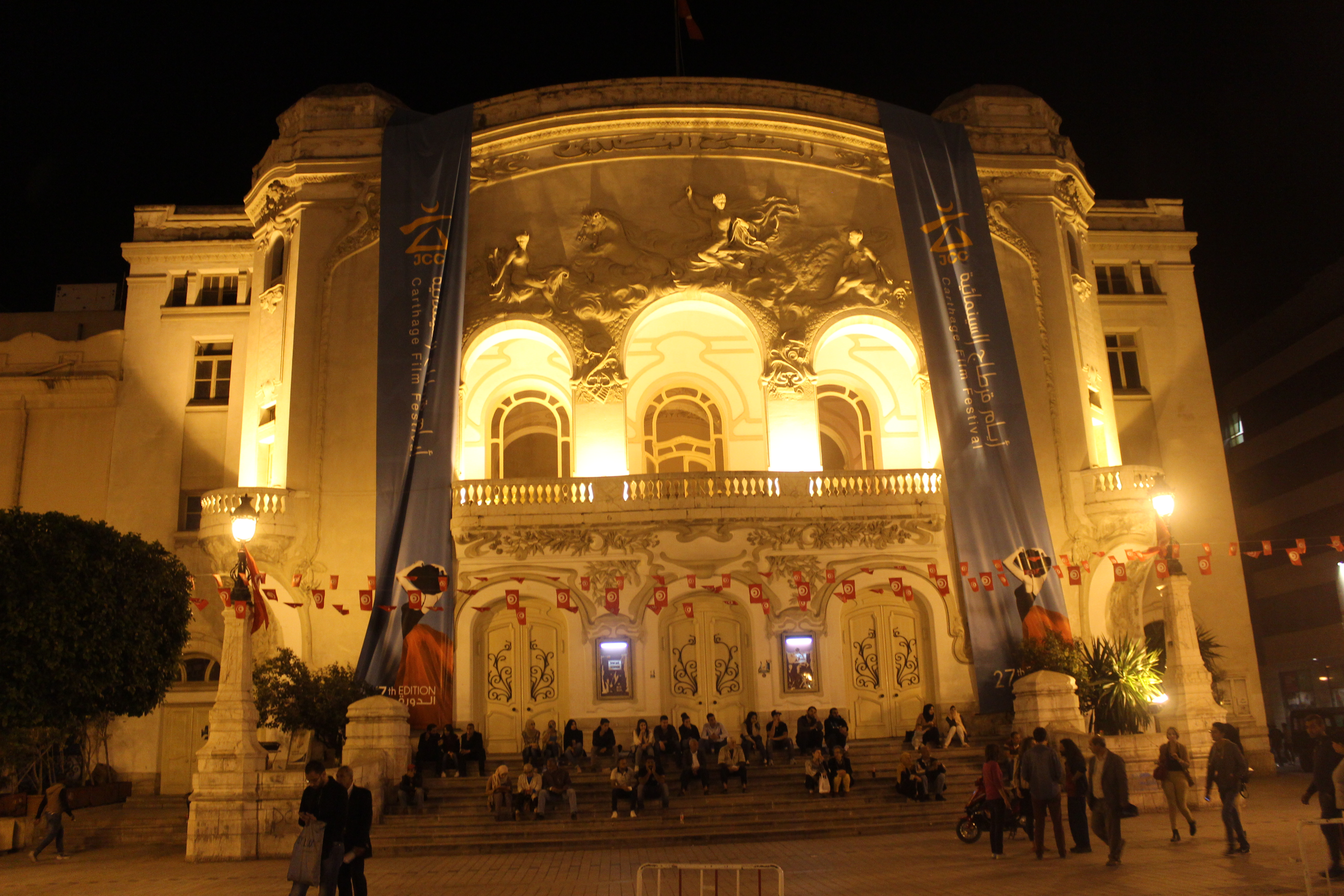 Municipal Theater of Tunis at night